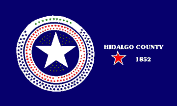 Flag of Hidalgo County, Texas.